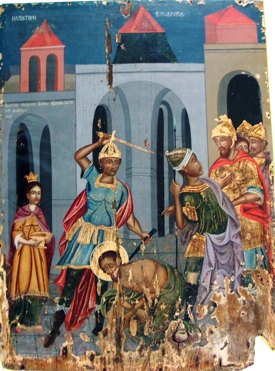 Saint John the Baptist Icon in Toumba Monastery Restored